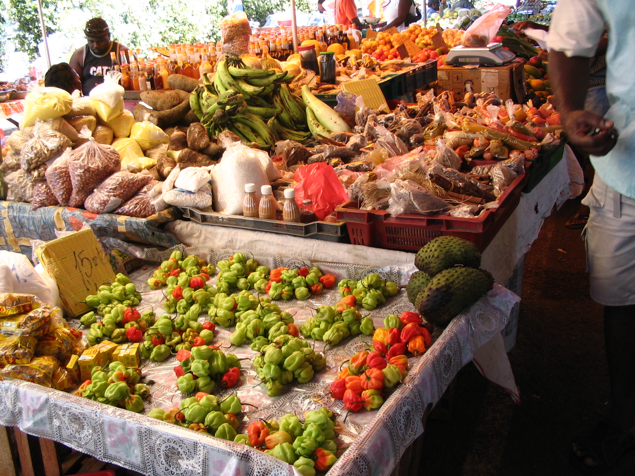 Green habanero chili peppers (capsicum chinense) for sale at Kourou's Saturday morning market.